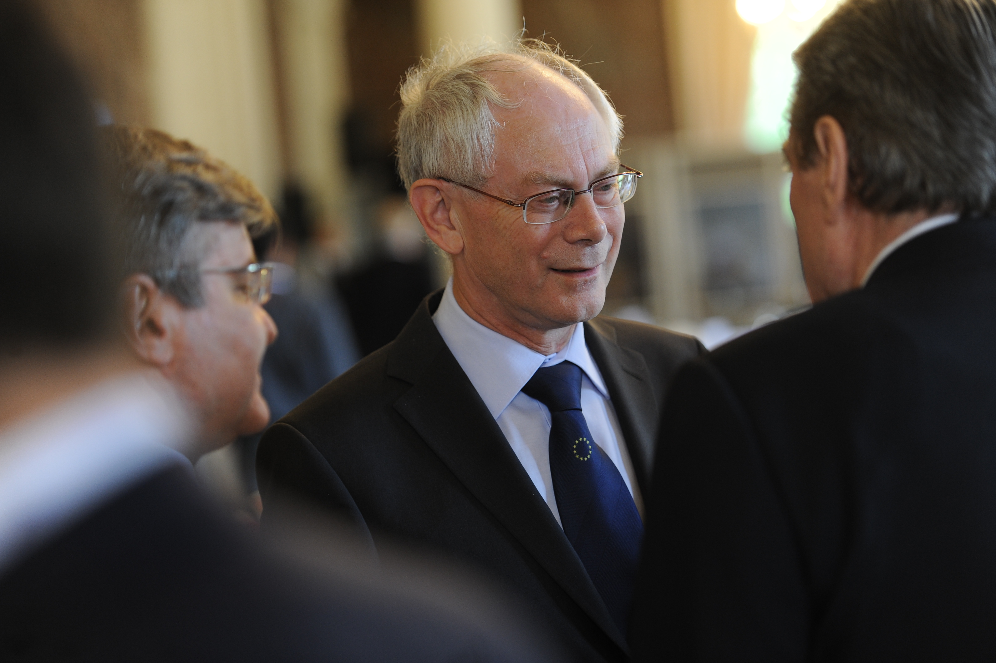 Herman Van Rompuy